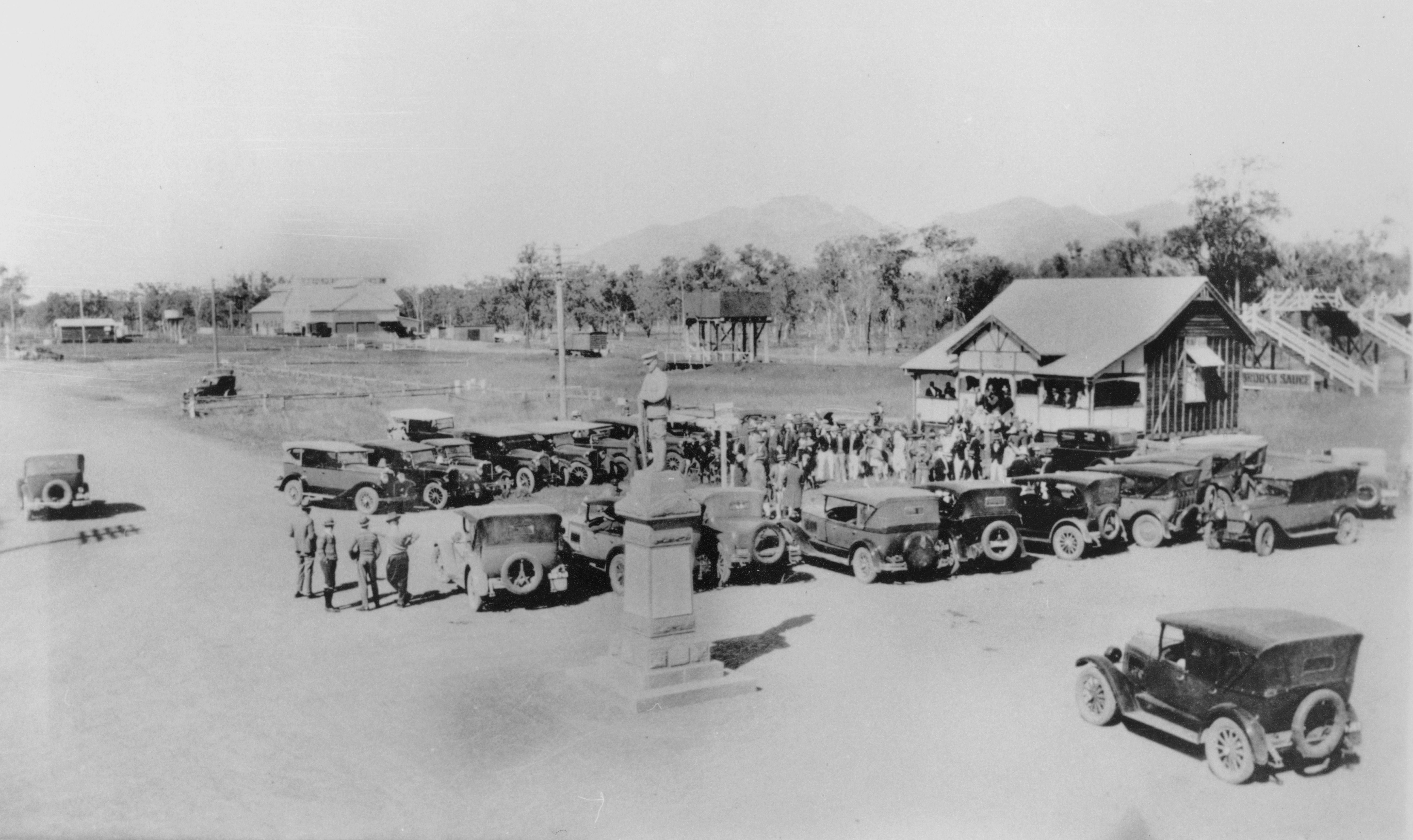 Opening of the Biggenden building of the Queenland Country Women's Association, October 1928